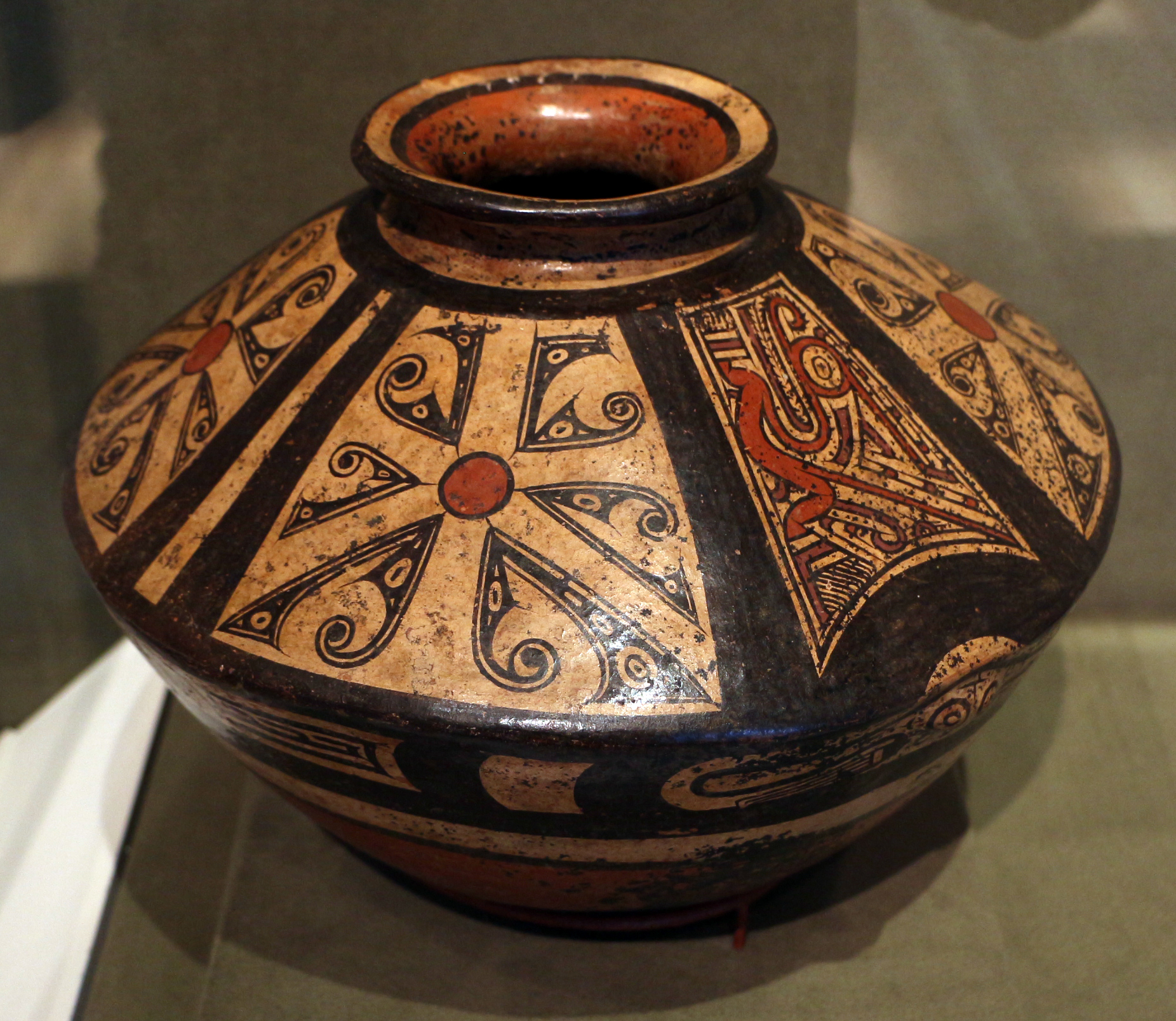 Pre-Columbian art in the Cleveland Museum of Art